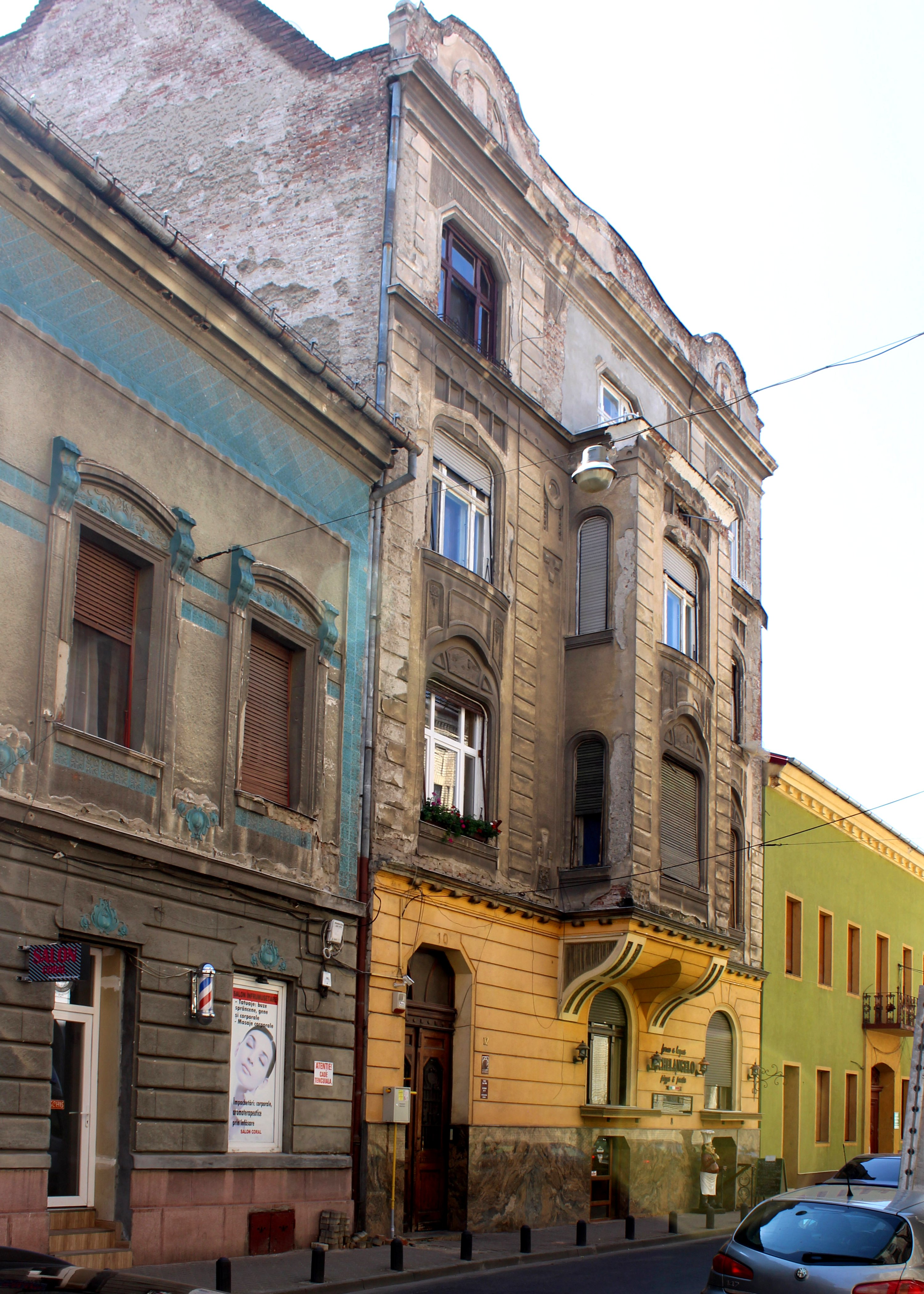 House, Unirii str, no 12, Arad, Romania, built about 1900